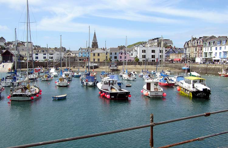 Ilfracombe harbour. Taken by Adrian Pingstone in July 2004 and released to the public domain.